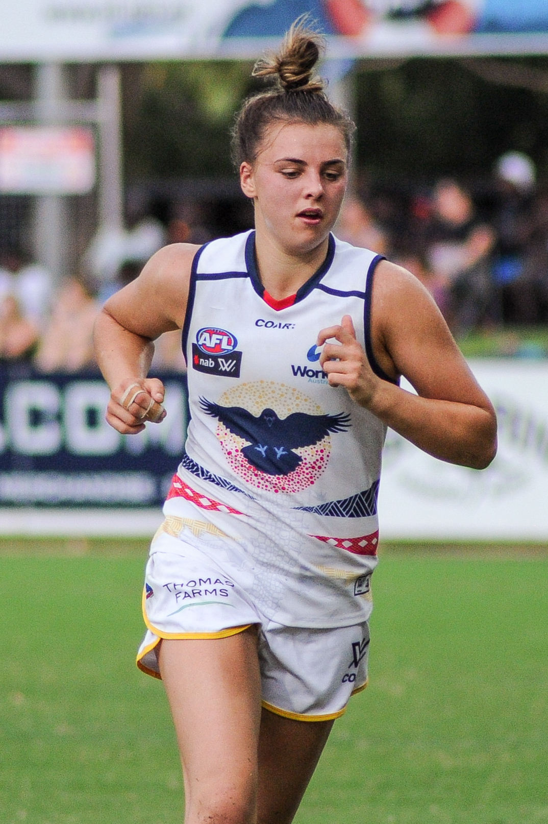 Ebony Marinoff during the AFL Women's round six match between Adelaide and Melbourne on 11 March 2017 at TIO Stadium in Darwin, Northern Territory